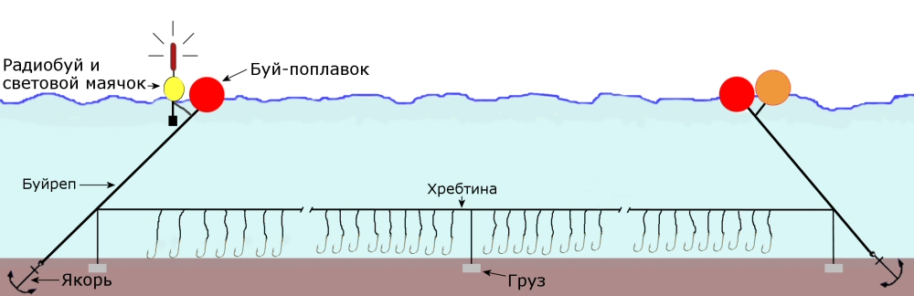 Longline: bottom autoline